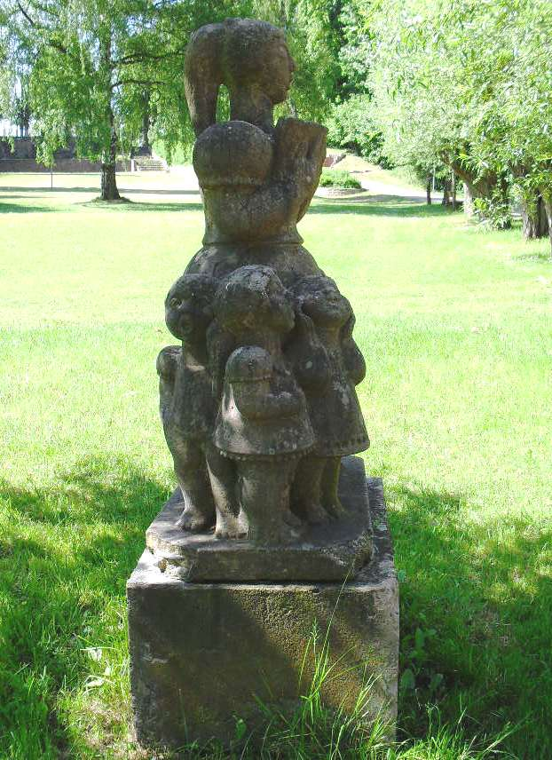 Sculpture by Dorothee Raetsch: A group of children at the lake "Nesselpfuhl" in the "raftsmen City" Lychen/ Uckermark (Germany)